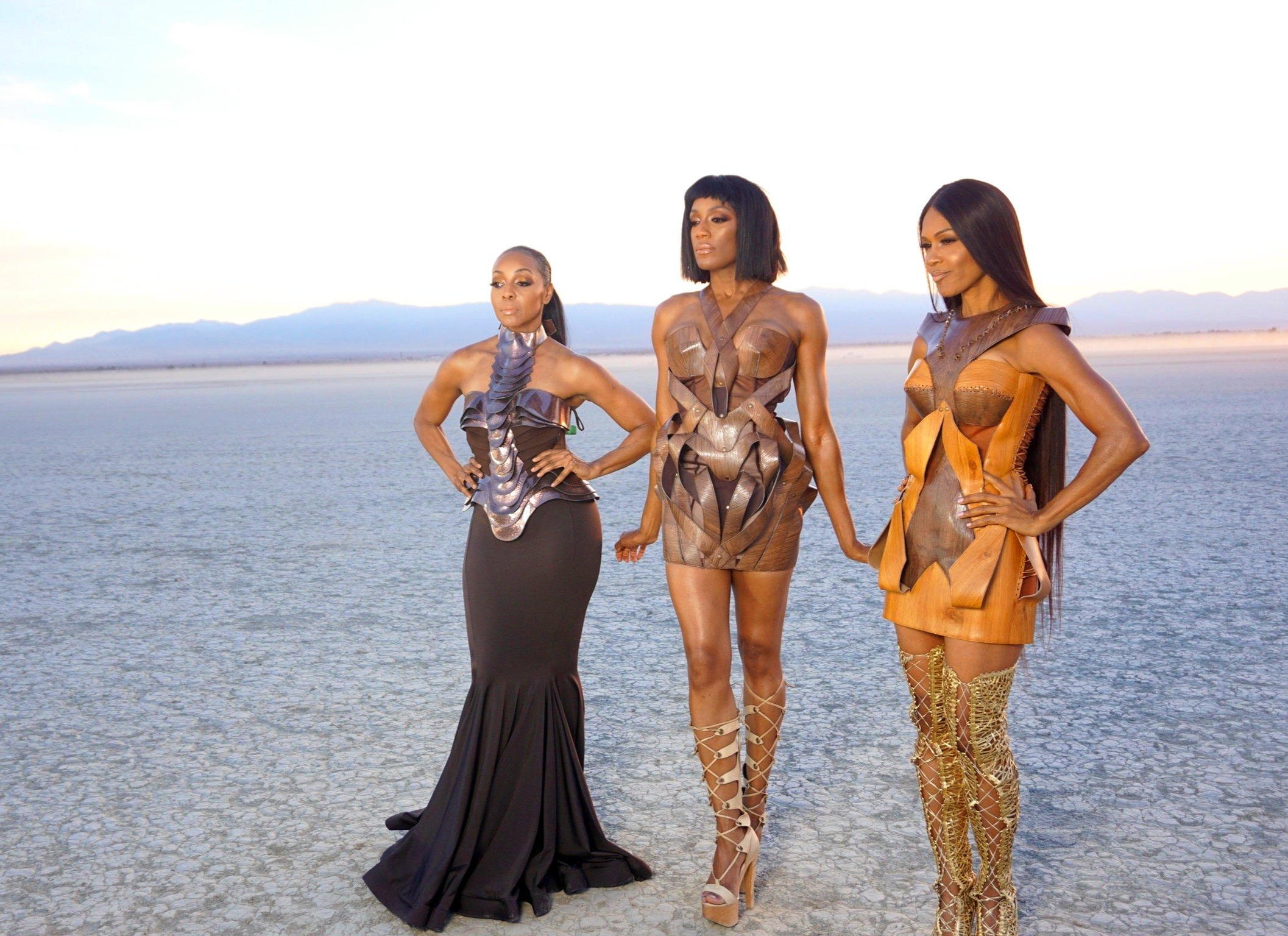 R&B music group, En Vogue. From left to right: Terry Ellis, Rhona Bennett & Cindy Herron.